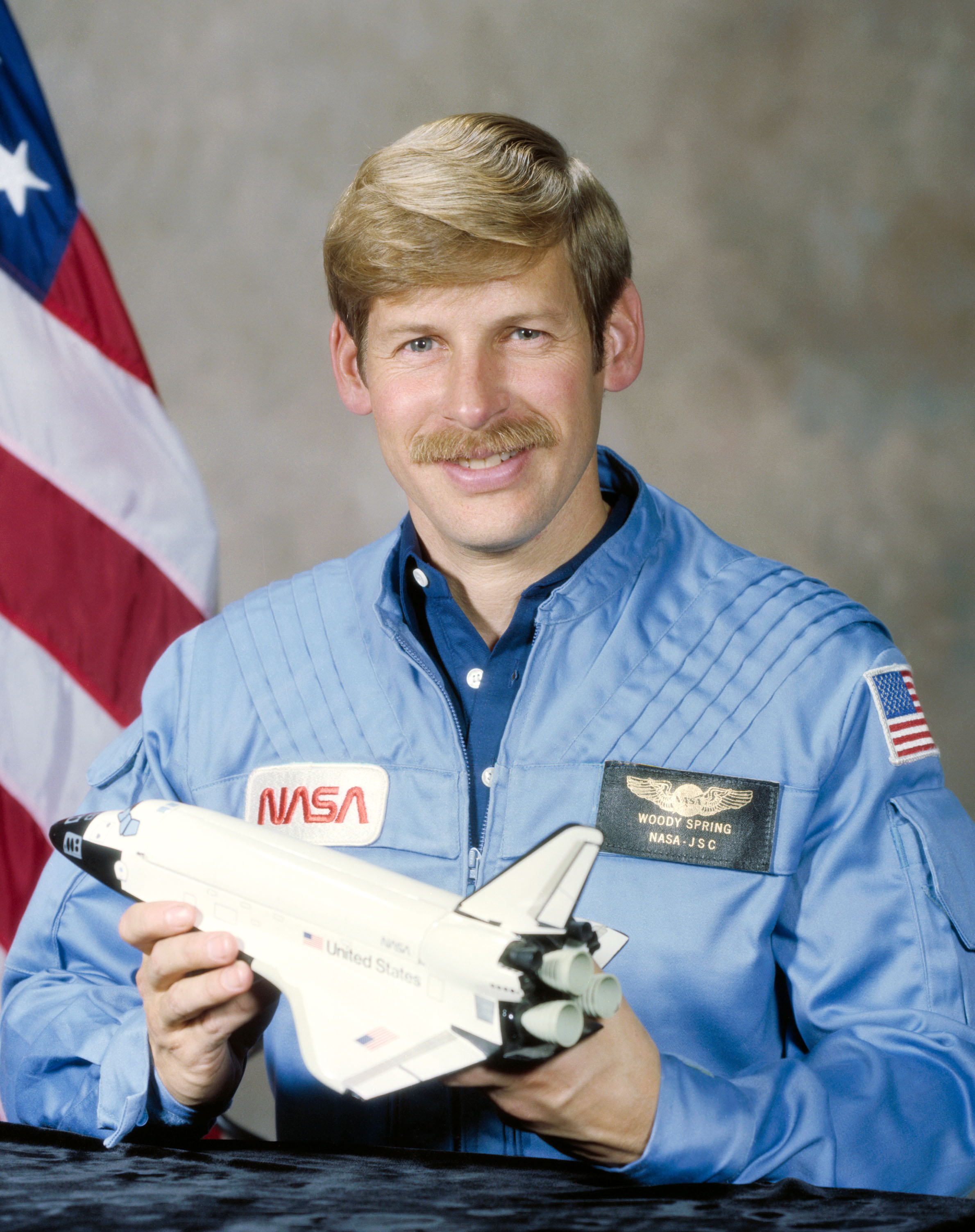 Portrait of astronaut Sherwood Spring